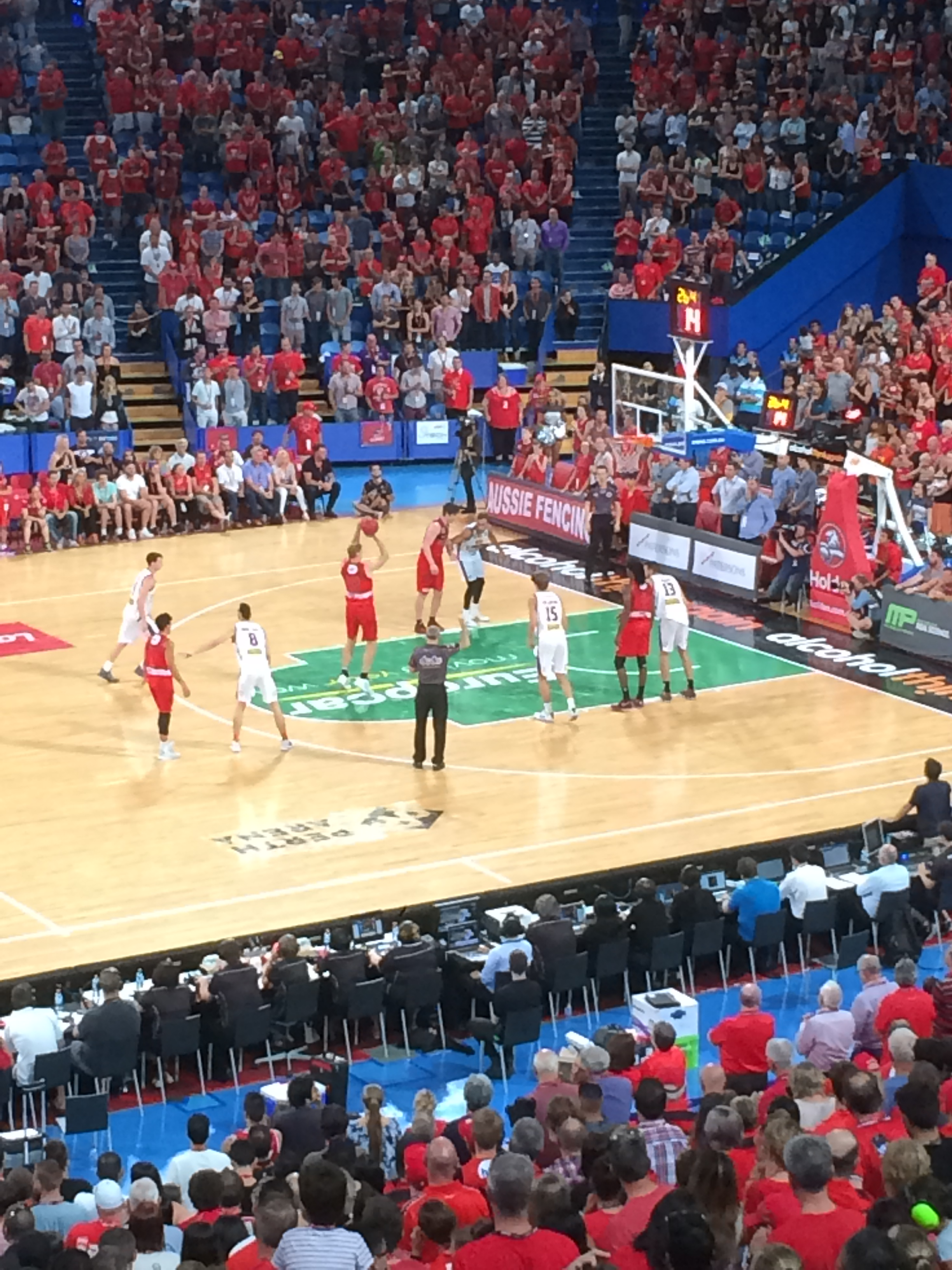 Shawn Redhage shooting a free throw in his 372nd game for the Perth Wildcats